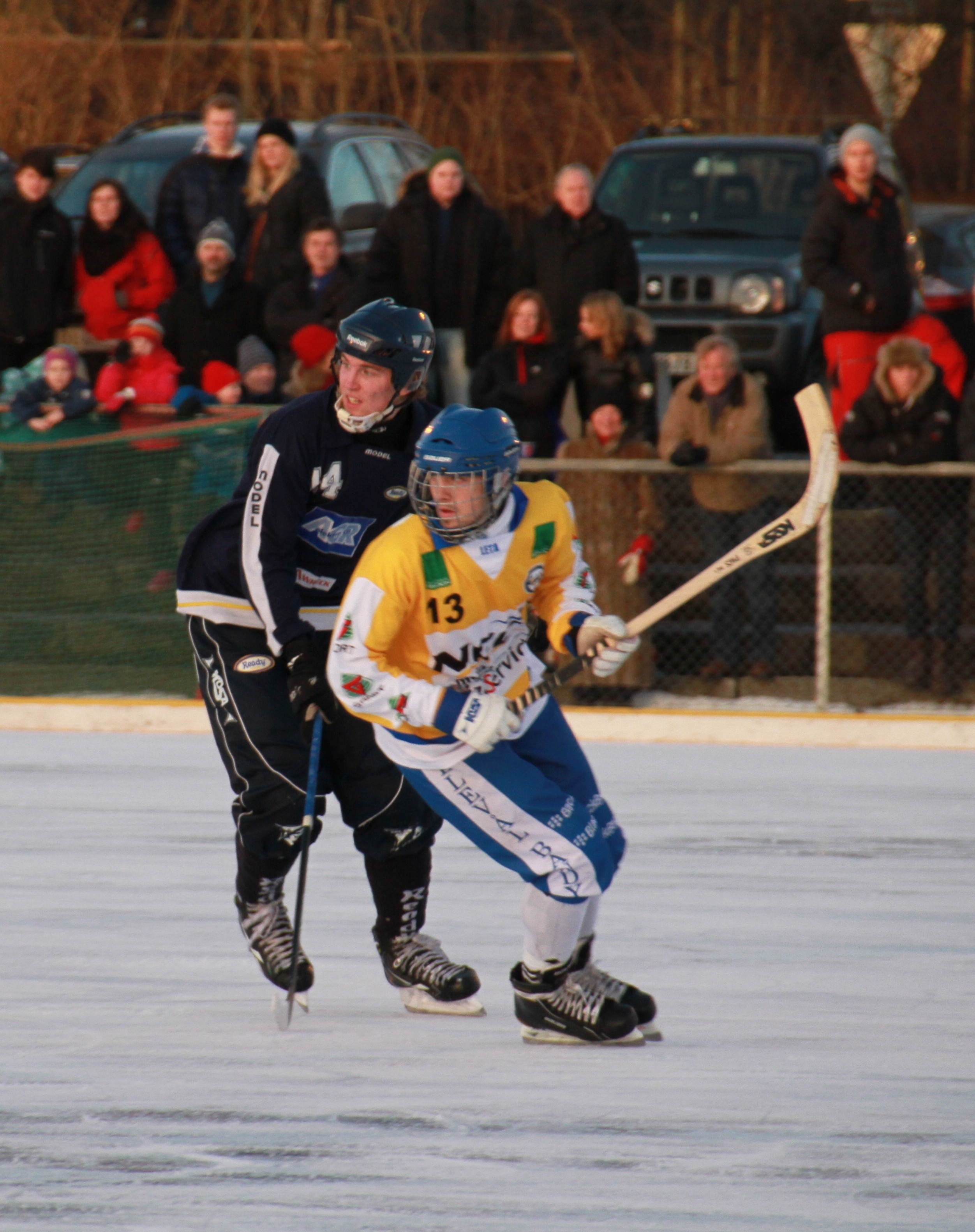 Bandy players representing Ready Bandy (blue) and Ullevaal Bandy (yellow), both clubs from Oslo, Norway. Photo from gressbanen Arena, December 26, 2011.